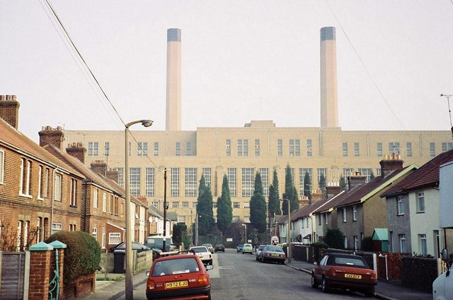 Hamworthy: Ivor Road skyline changes forever (part 1)